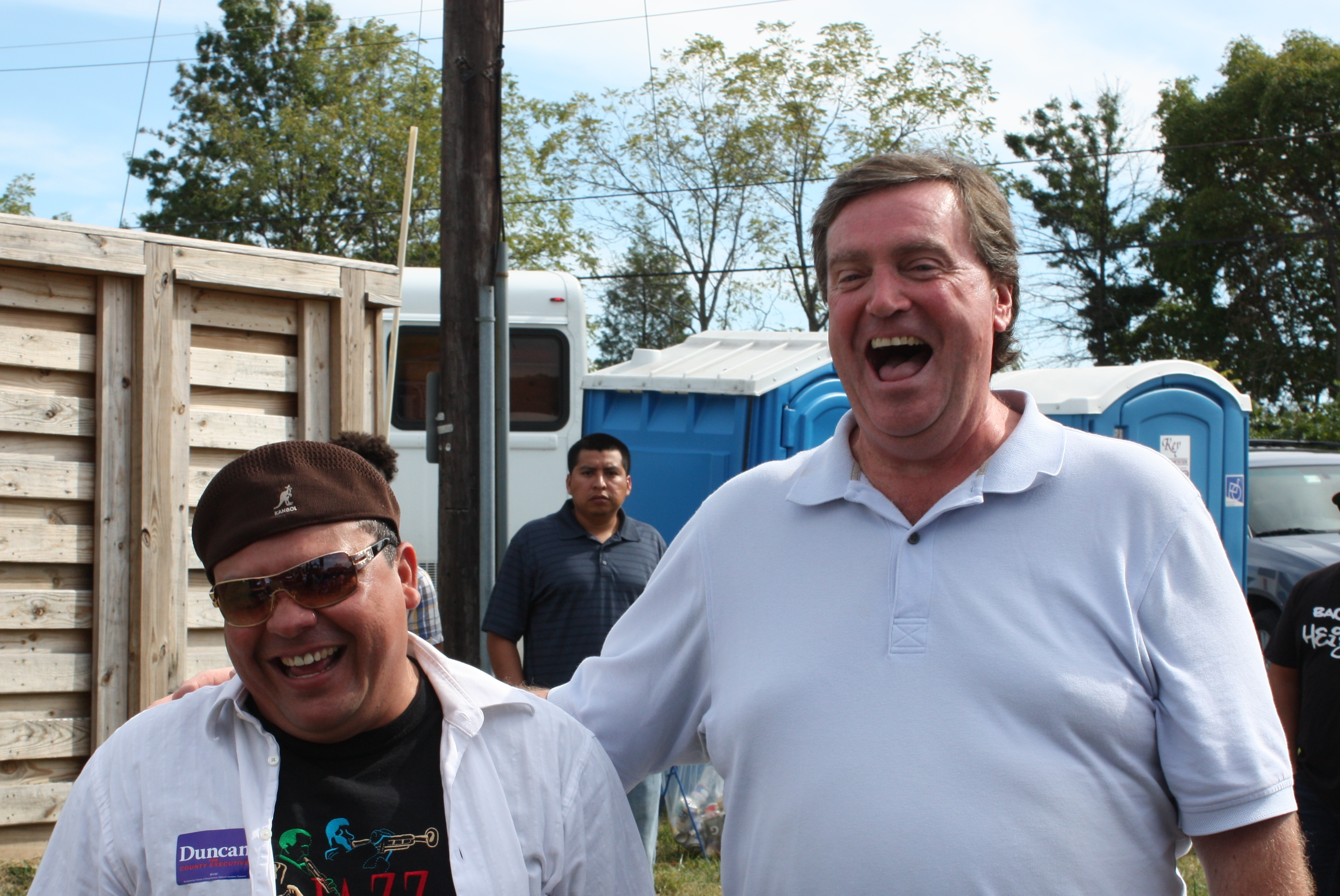 Duncan greeting supporters in September 2013